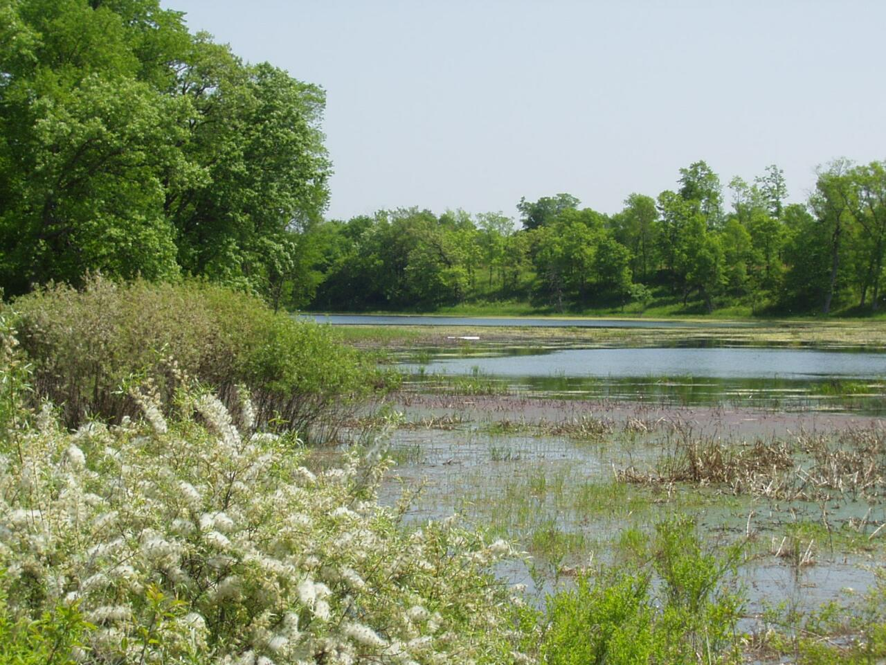 Crow-Hassan Park Reserve in Hassan Township, Minnesota. (Northwest of Minneapolis.) Part of the Three Rivers Park District.